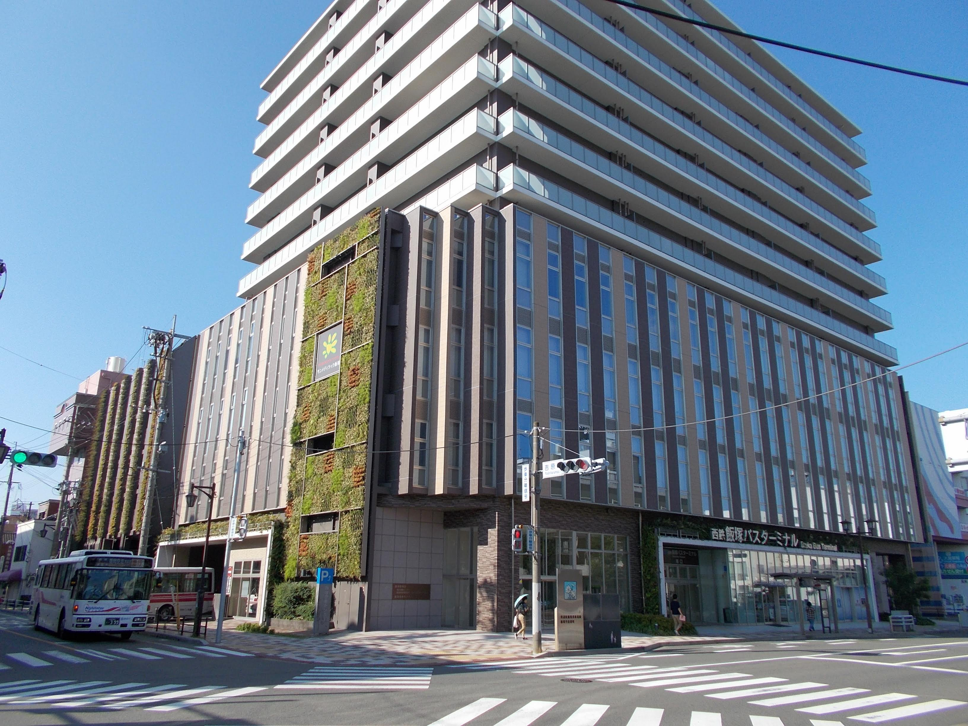 Iizuka Bus Terminal, Iizuka, Fukuoka, Japan